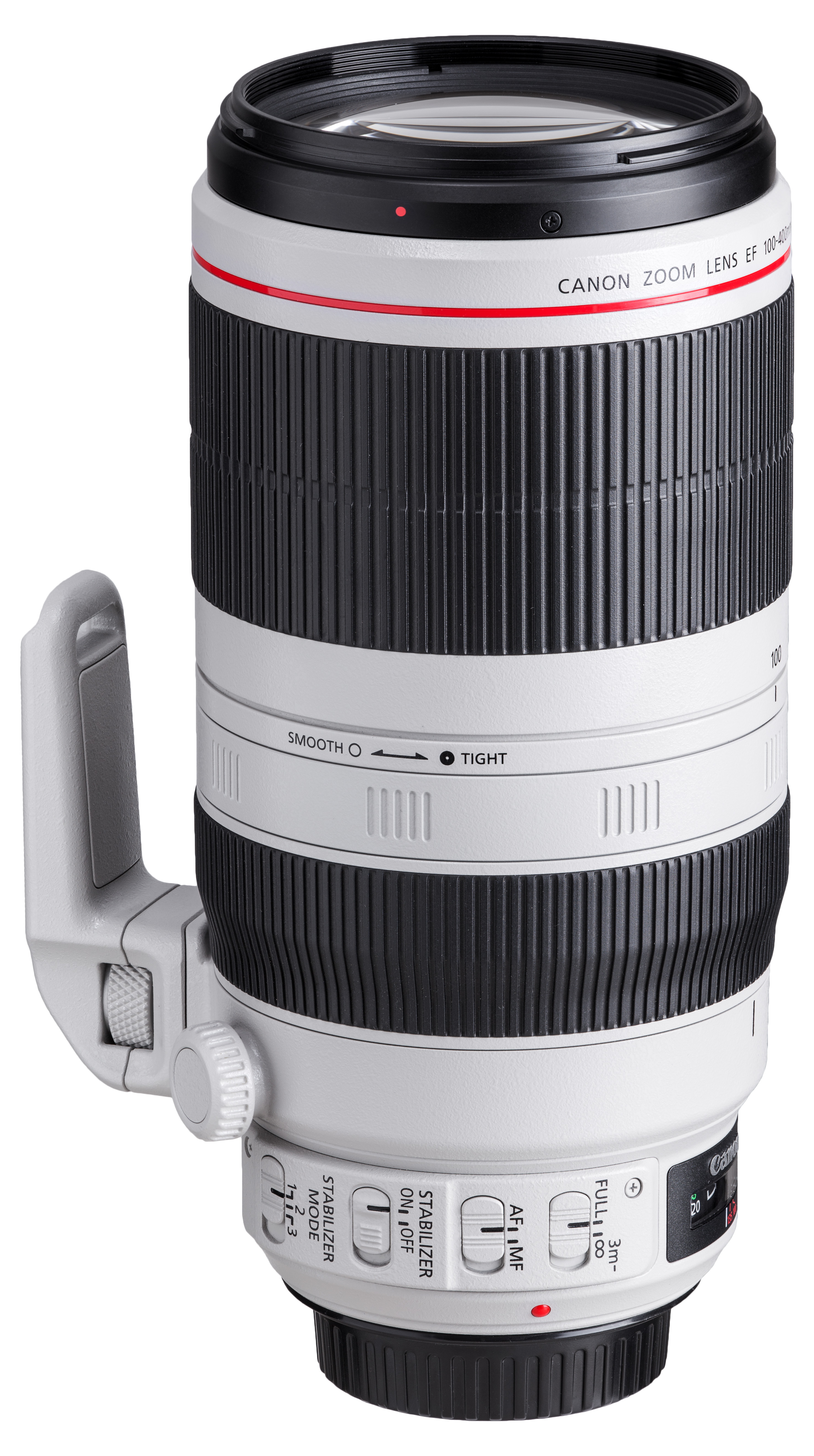 Studio photograph focus stack of a Canon EF 100-400mm f/4.5-5.6L IS II USM DSLR zoom lens.